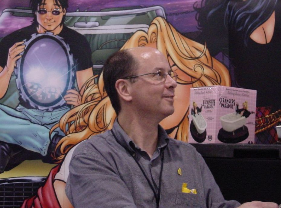 Terry Moore, creator of Strangers in Paradise, at the Heroes Convention 2006 in Charlotte, North Carolina